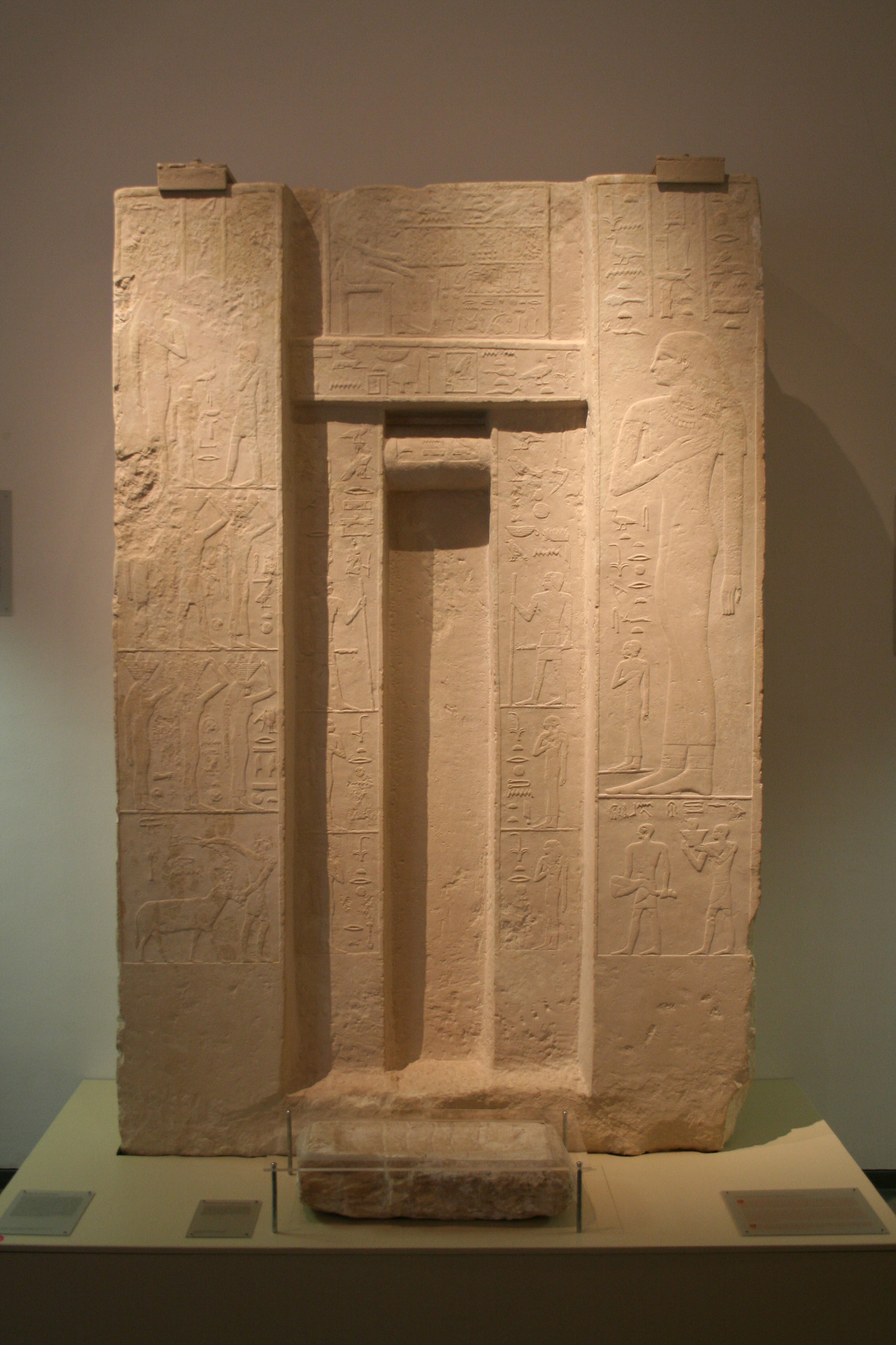 Roemer- und Pelizaeus-Museum, Hildesheim